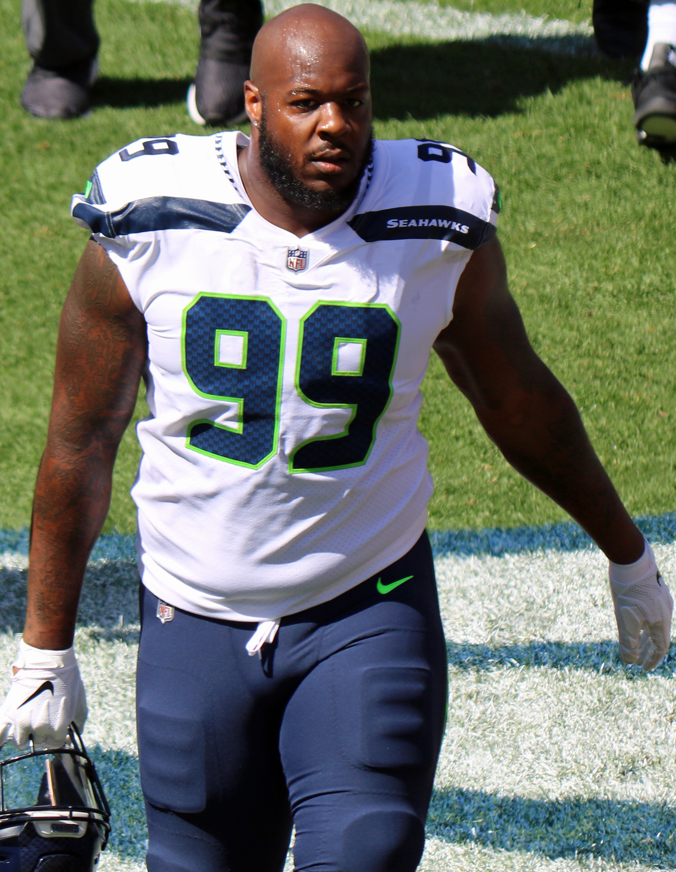 Quinton Jefferson, a player on the National Football League.